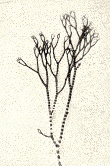 Ceramium rubrum, top of front magnified Subject: Ceramiaceae Tag: Aquatic Botany